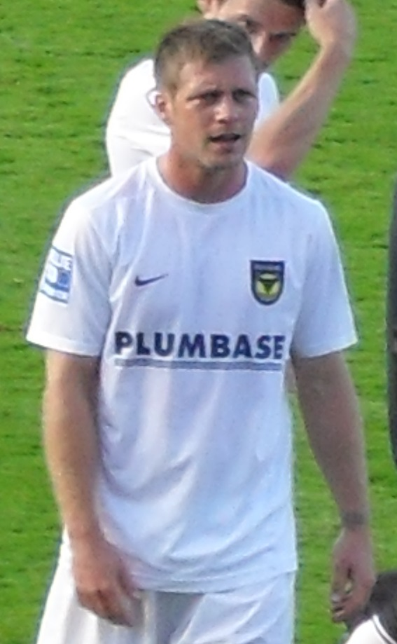 Dannie Bulman.